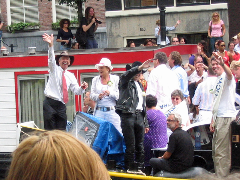 Dutch minister of education and culture, Ronald Plasterk, taking part in Canal Parade of the Amsterdam Gay Pride 2008.